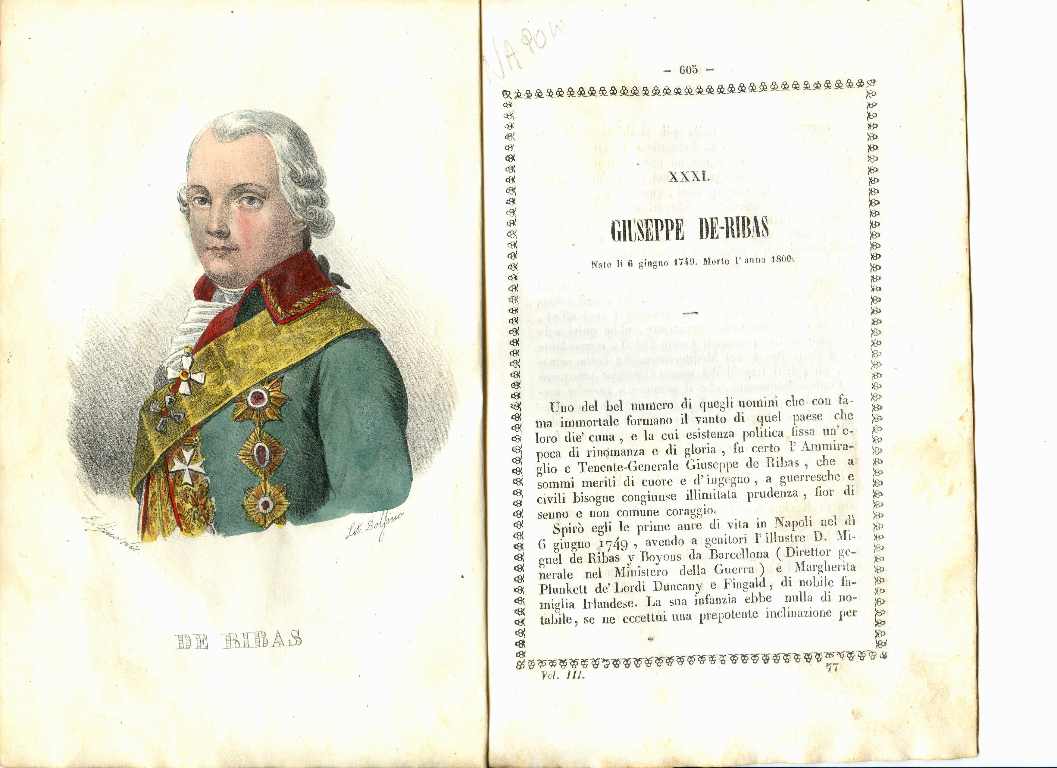 Scan of Italian book JACCARINO, Luigi. VITE E RITRATTI DEGLI UOMINI CELEBRI DI TUTTI I TEMPI E TUTTE LE NAZIONI. OPERA DI MOLTI LETTERATI ITALIANI, AMPLIATA E CORREDATA DI NOTE STORICHE E GEOGRAFICHE. Napoli, Mattero Vara, 1841